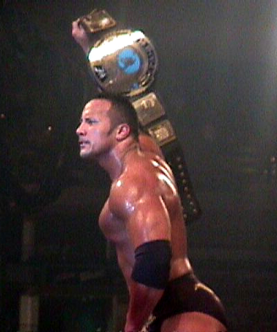 The Rock as WWF Champion.